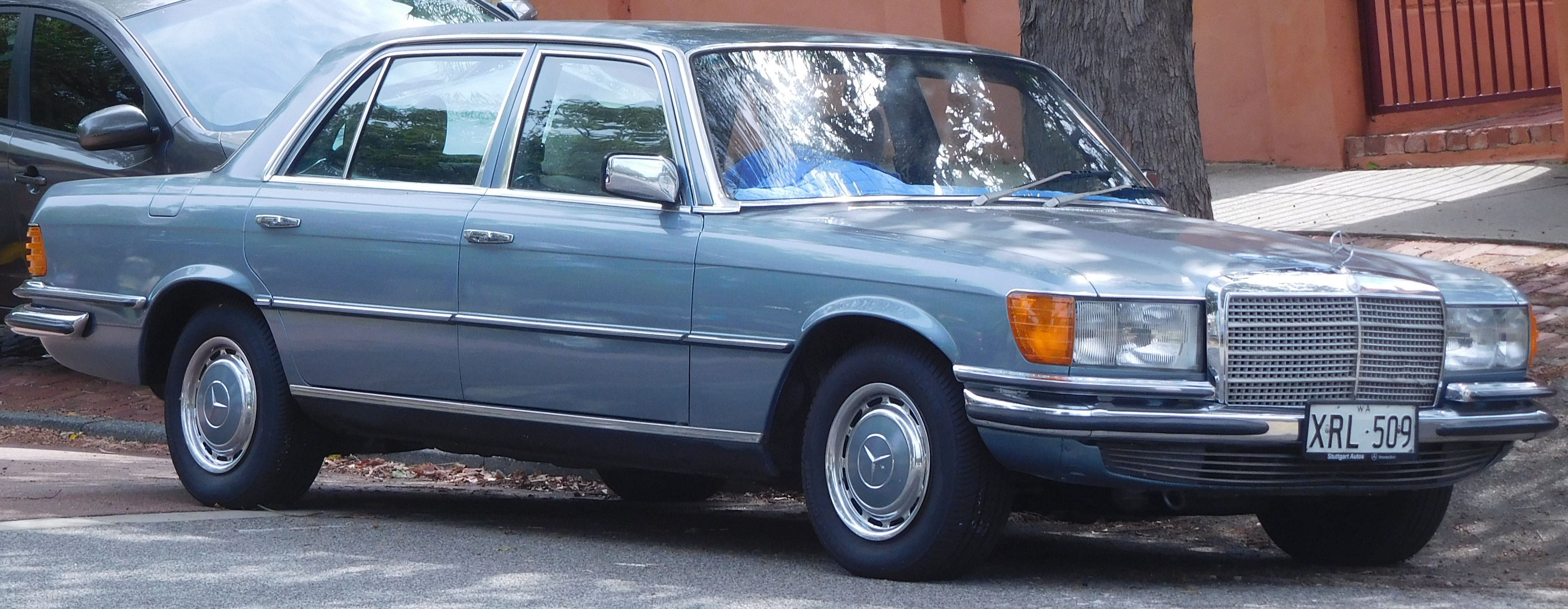 1973–1980 Mercedes-Benz 450 SEL (V 116) sedan. Photographed in West Leederville, Western Australia, Australia.